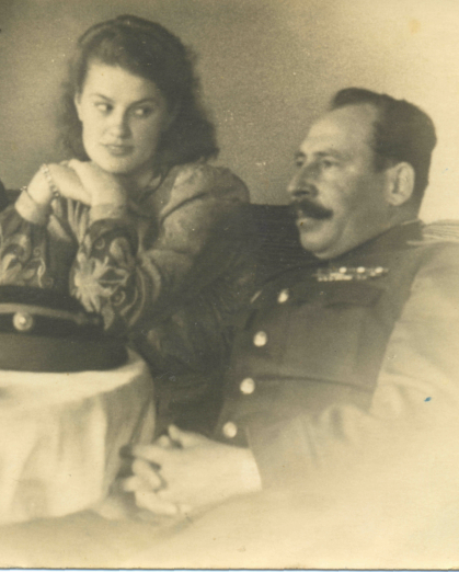 Soviet General Ivan Shamshin with his wife Maria